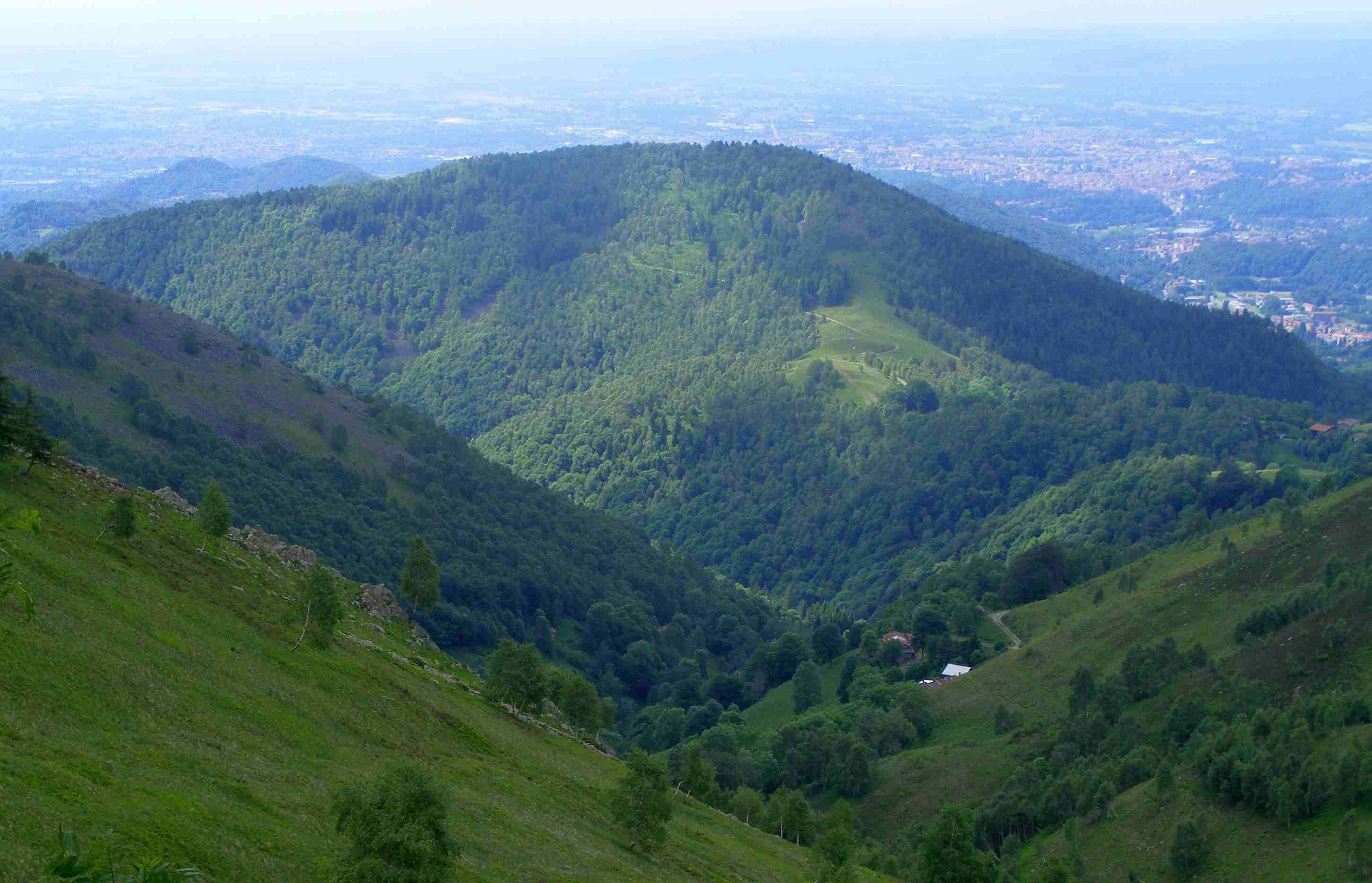 Mount Casto from Bocchetto di Sessera (BI, Italy); sullo sfondo la città di Biella